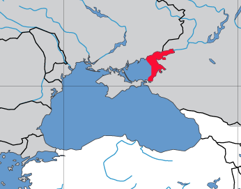 The range of the Azov tadpole goby (Benthophilus magistri)